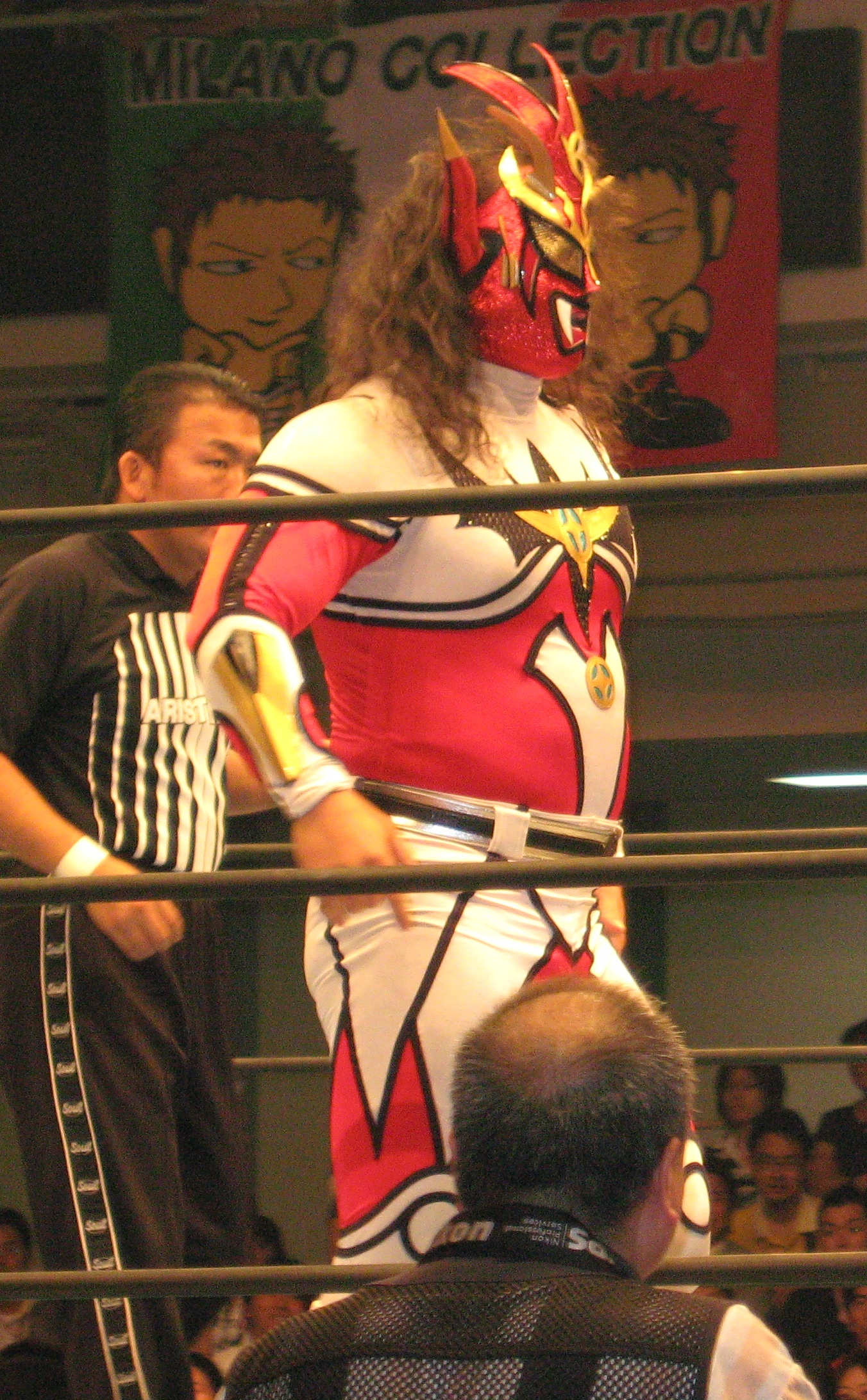 Jushin Thunder Liger at Korakuen Hall, Tokyo, Japan. 6.17.07.